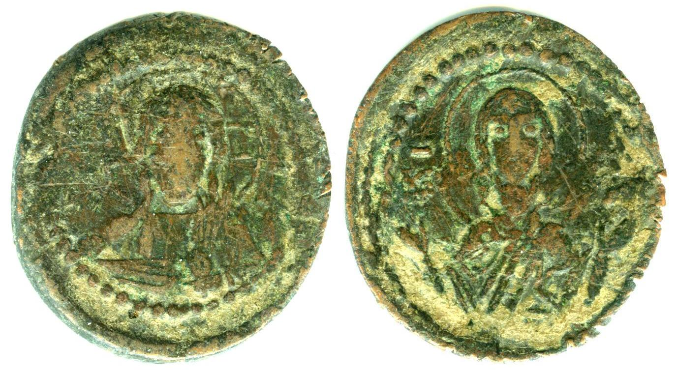 Byzantine Empire: anonymous follis, no date, attributed to Romanus IV (1068-1071), S# 1867. Obv.: bust of Christ facing, rev.: facing bust of the Virgin Mary raising both hands in prayer.